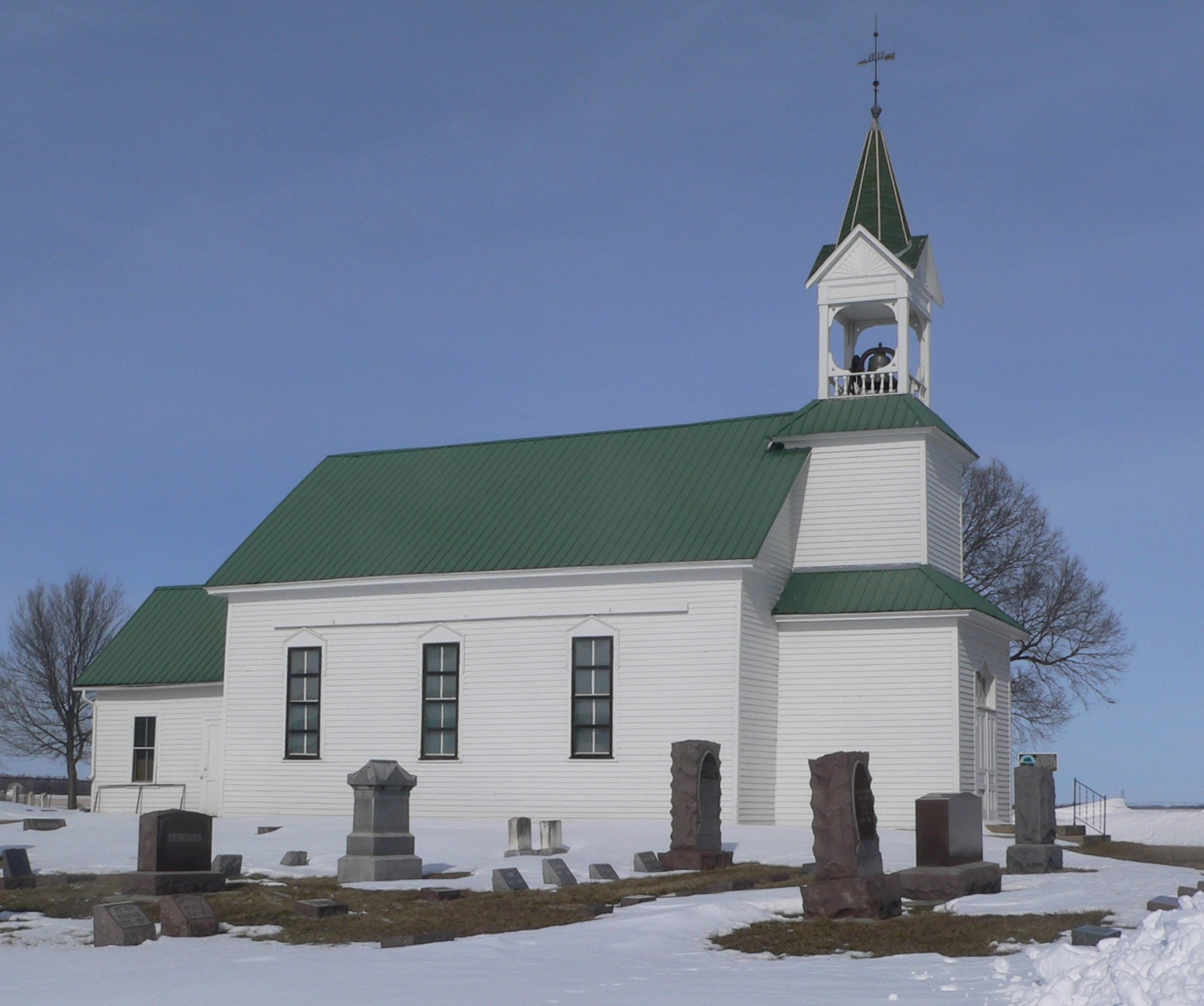 Vangen Norwegian Evangelical Lutheran Church, located about a mile east of Mission Hill, South Dakota; seen from the south-southeast.